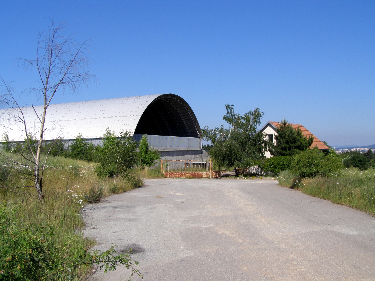 Slavičky. Pozďátky waste dump